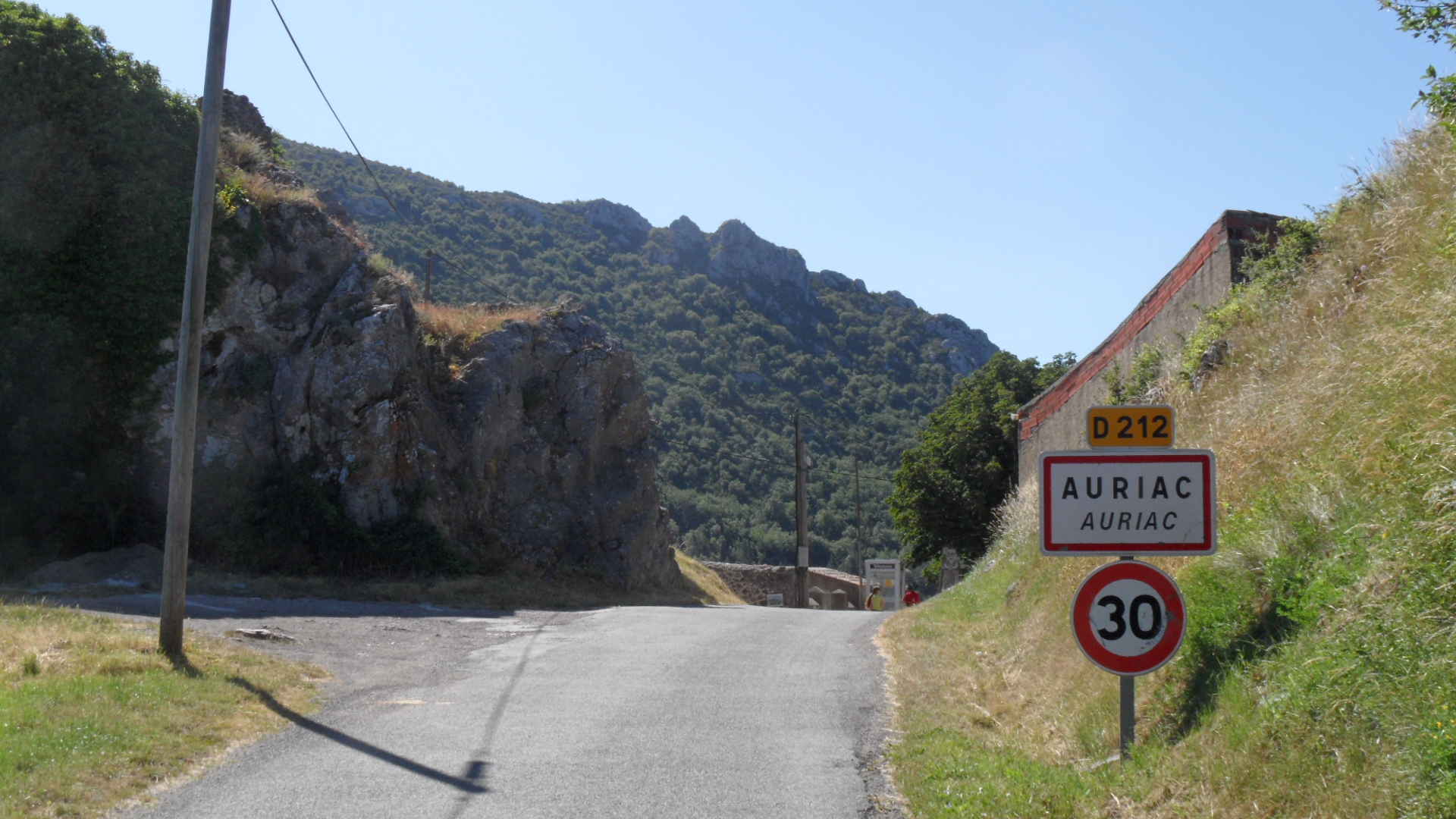 View of Auriac, Aude, France